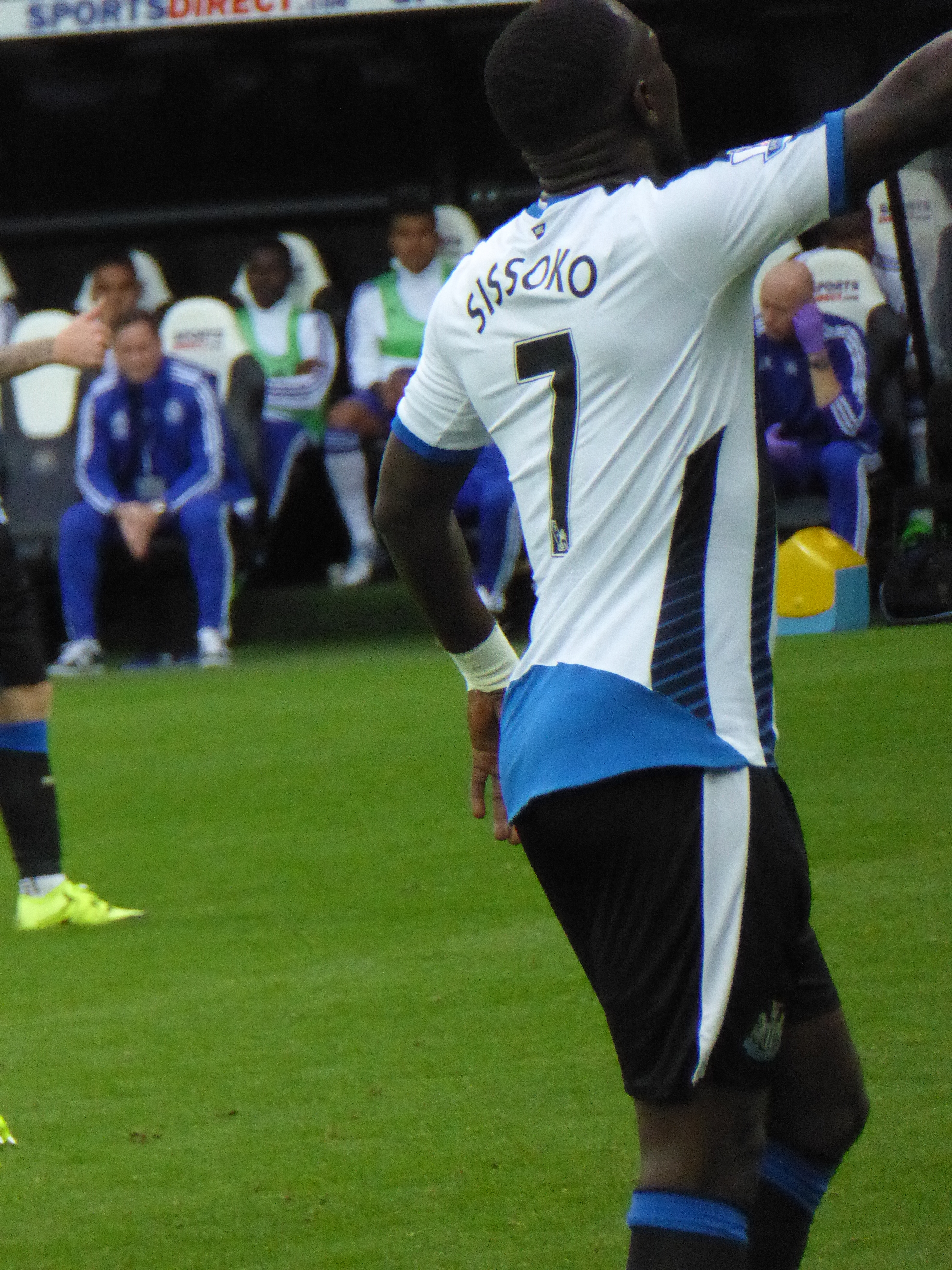 Newcastle United vs Chelsea (2-2), Barclays Premier League, St James' Park, Newcastle upon Tyne, Tyne and Wear, England, September 2015